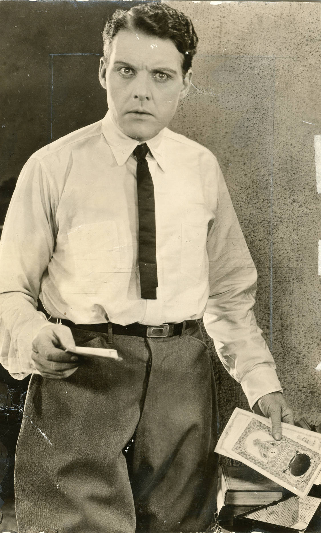 Forrest Stanley, silent film actor Subjects: actors